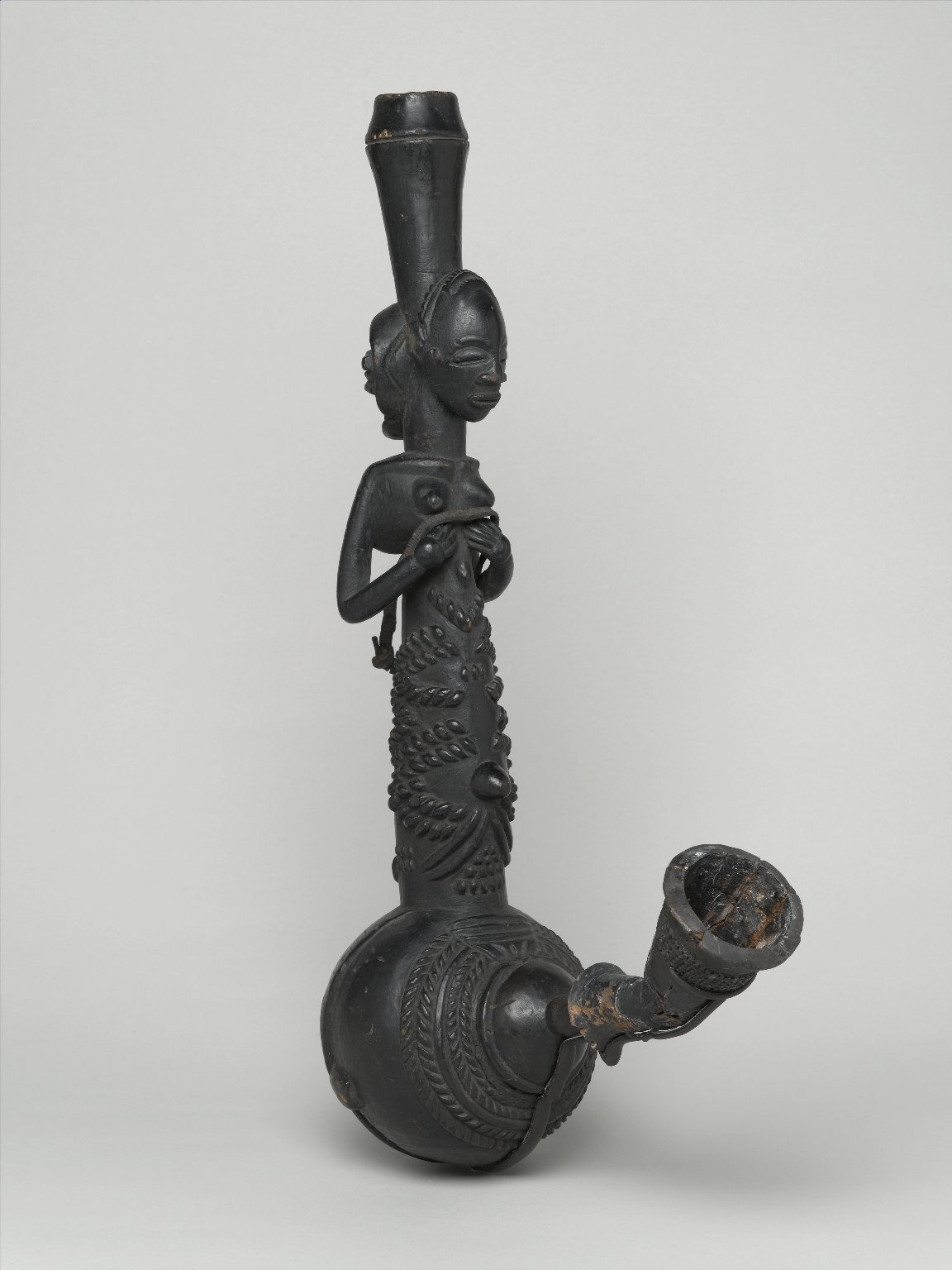 Carved wooden water pipe and bowl straddled by a beautifully carved female figure with elongated torso. Body symbolically cicatrized in traditional style. Modelled arms with hands below small breasts; columnar neck surmounted by carefully carved head; coiffure bound up in cross-shaped framework. Wood worn and patinated; clay bowl has been repaired.